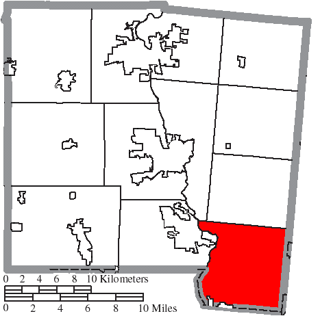 Map of the municipal and township boundaries of Miami County, Ohio, United States, as of the 2000 census, with the location of Bethel Township highlighted. Township borders are shown only in unincorporated areas in order to differentiate incorporated and unincorporated areas more clearly.